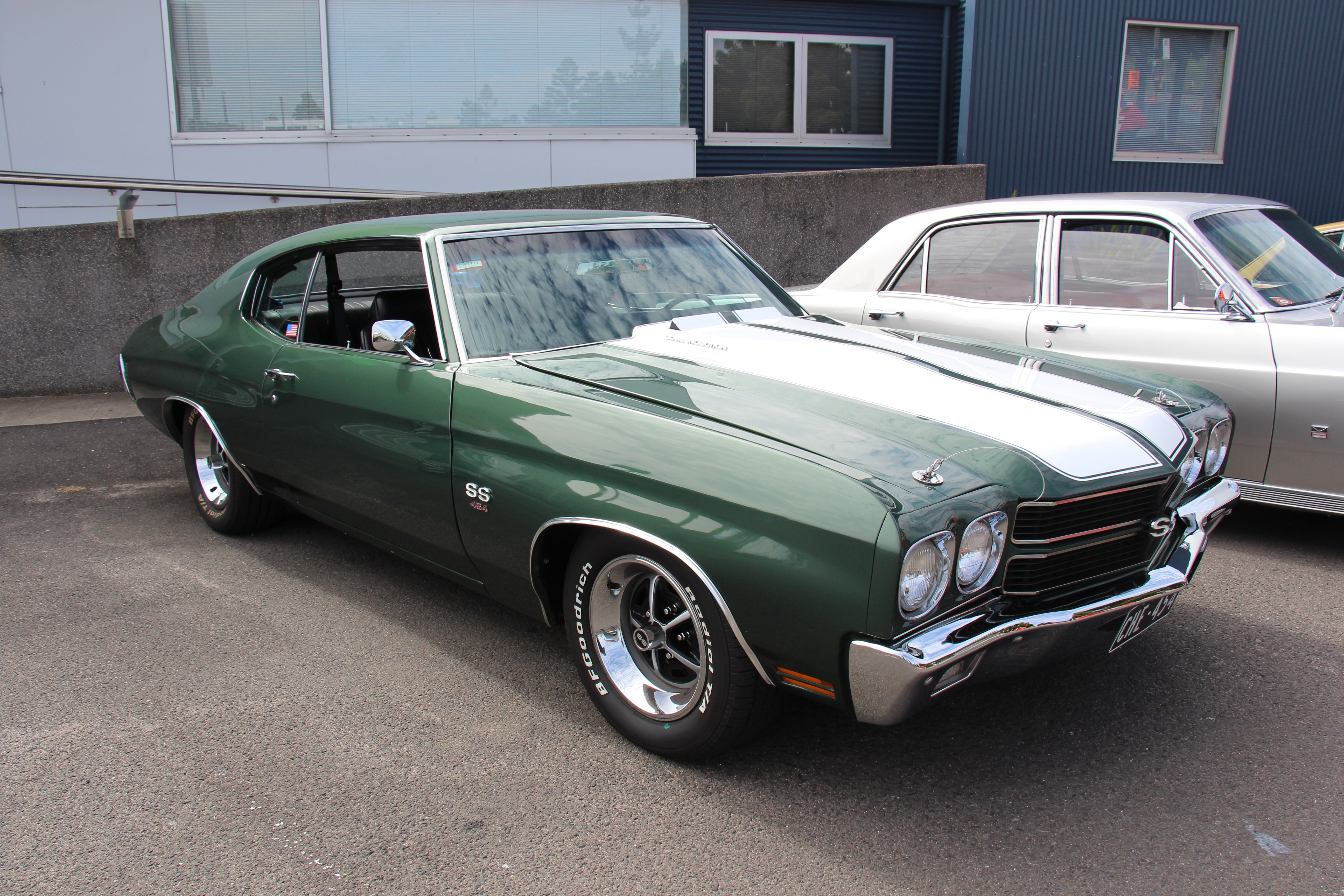 The 1970 Chevele was squared up at the front and got a new interior. Available in Hardtop Coupe, Convertible, Sedan and Wagon, the SS was now available with 350hp 396 or now 454 in 360hp LS5 or 450hp LS6 and again in Sports Coupe, Convertible or El Camino.The SS got the Power Dome Hood and Black grille. This car also has the Cowl Induction option which included the stripes and normally hood lock pins.